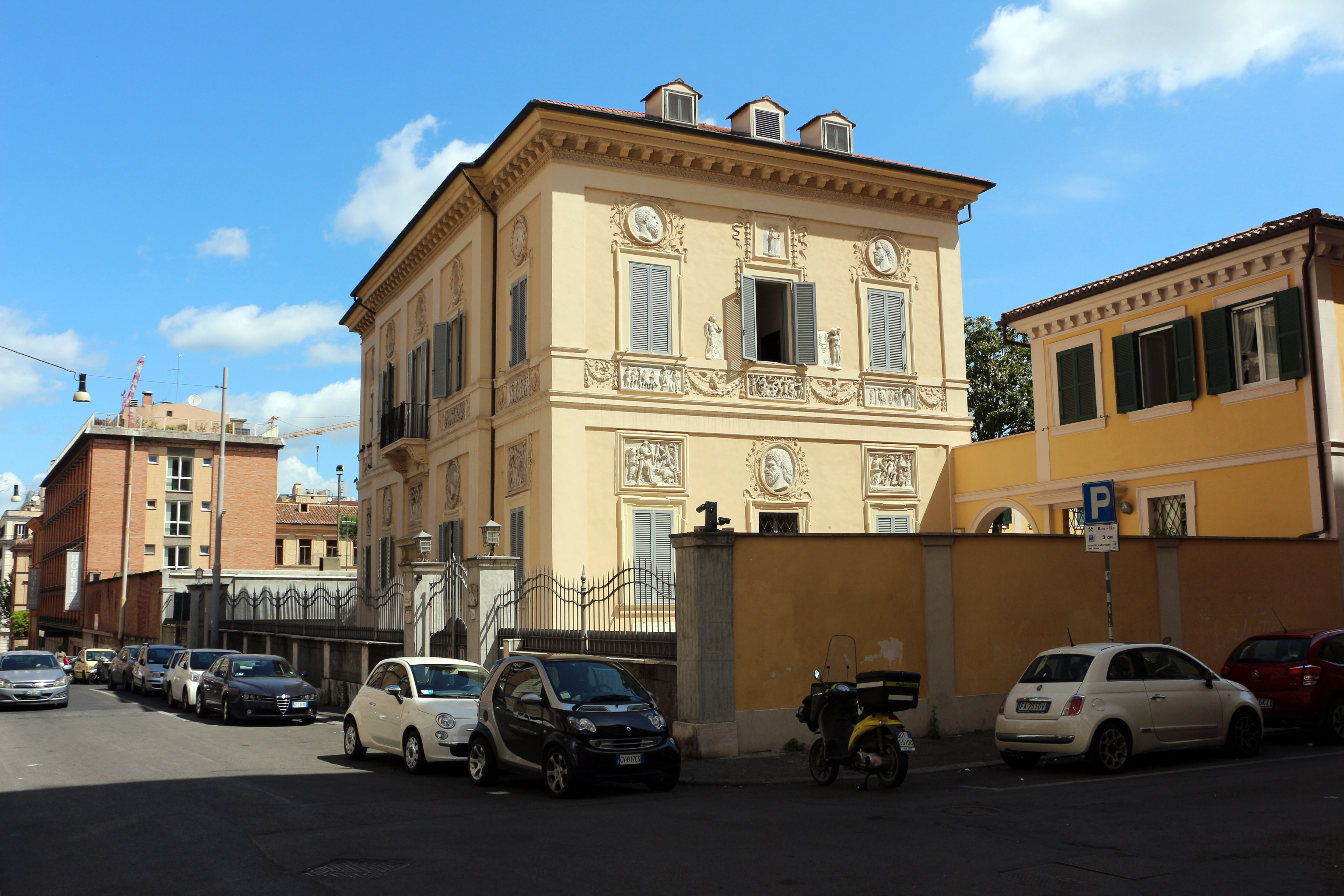 Casino Giustiniani Massimo (Rome)